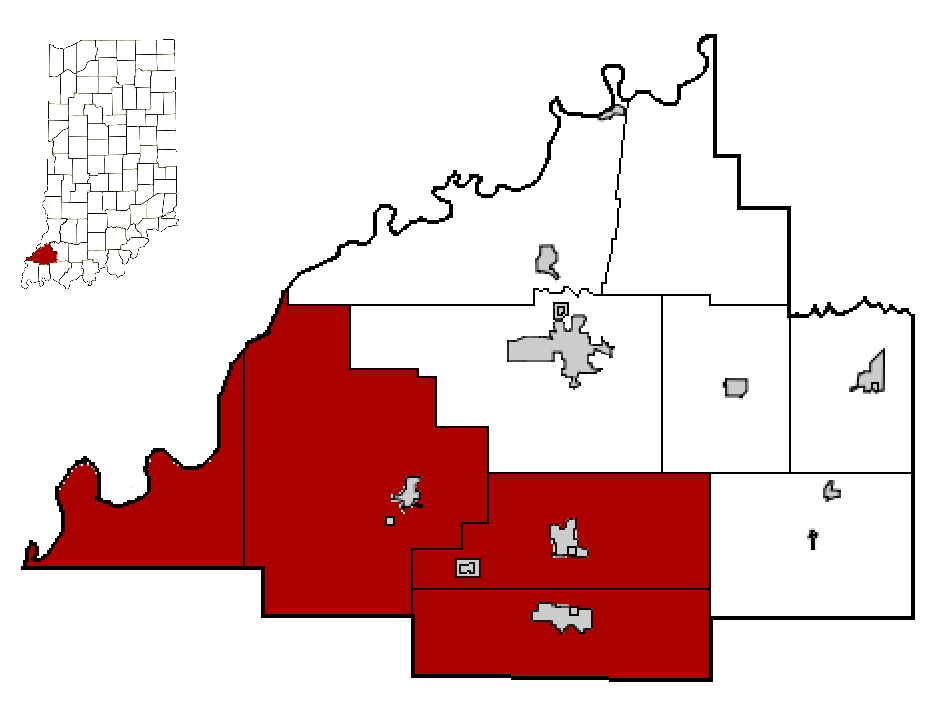 Township Map of Gibson County, Indiana, showing the extent of the South Gibson School Corporation.